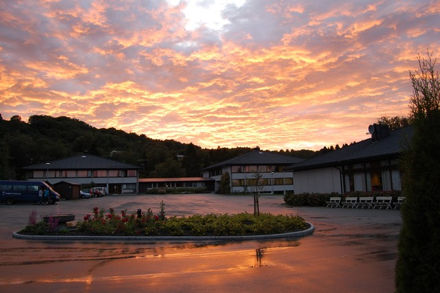 Fredly i kveldsol